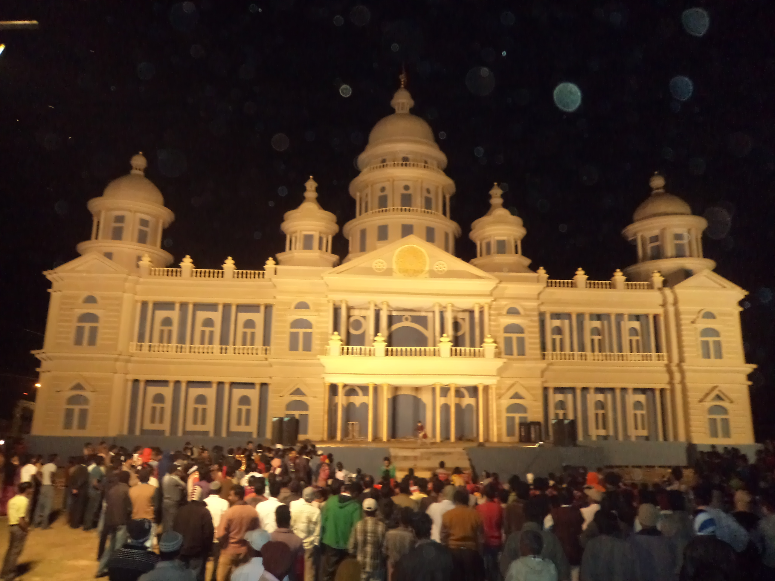 Jagadhatri Mela 2012